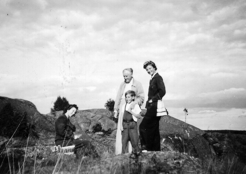 Lili de Faramond, Ragnvald Blix, Guy de Faramond and Ida Blix. Location: Gyön, Sweden. Probably in the late 1930s.